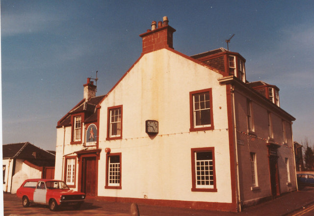 Ferry Inn, Renfrew The pub was run by the same family for around 150 years, until the council cancelled the lease in the late 1990s.